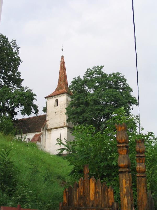 Reformed church in Saciova (hu. Szacsva), Covasna County, Transylvania, Romania